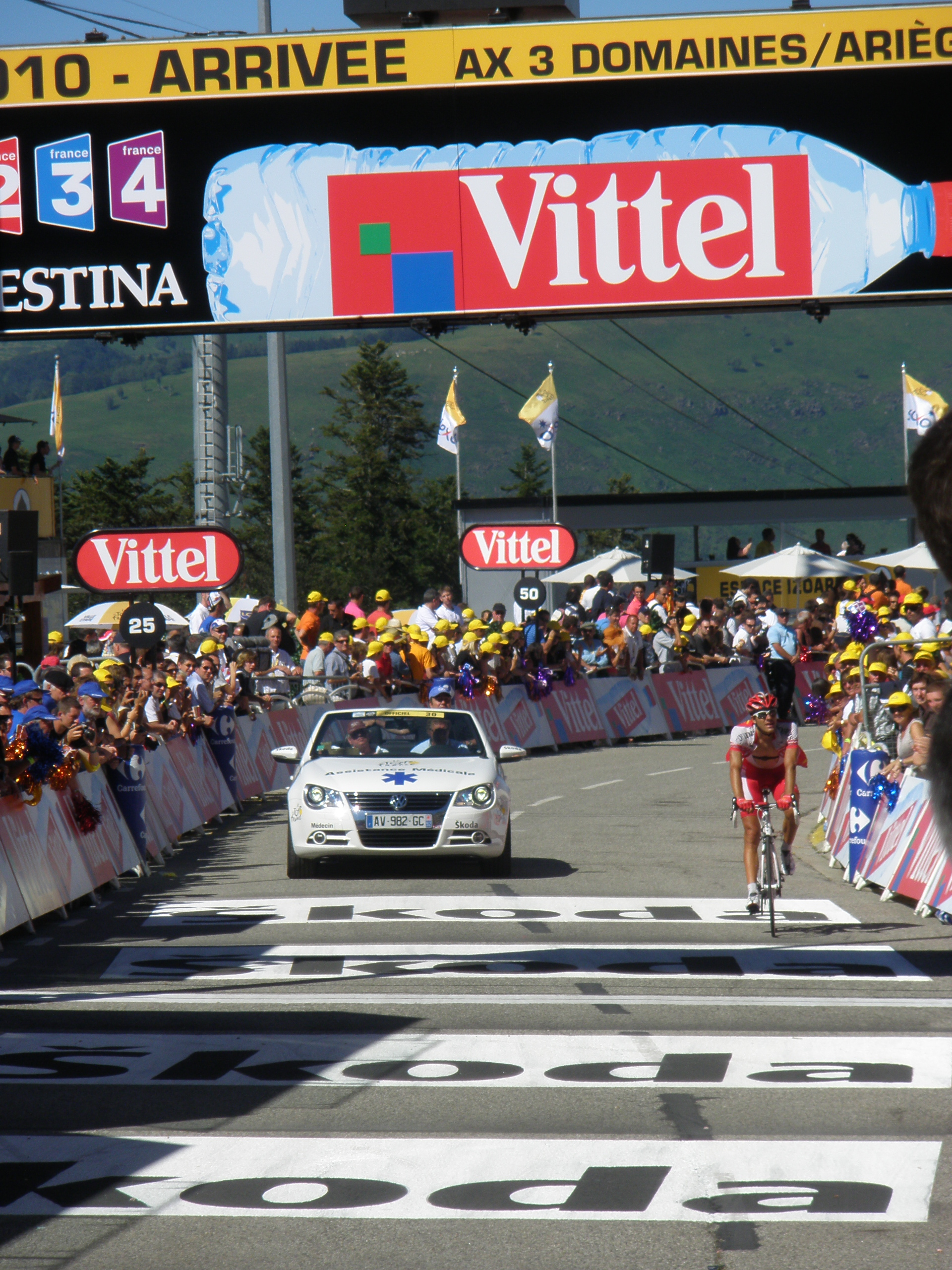 Amael Moinard crosses the line in Ax 3 Domaines during 14th stage of the Tour de France 2010.